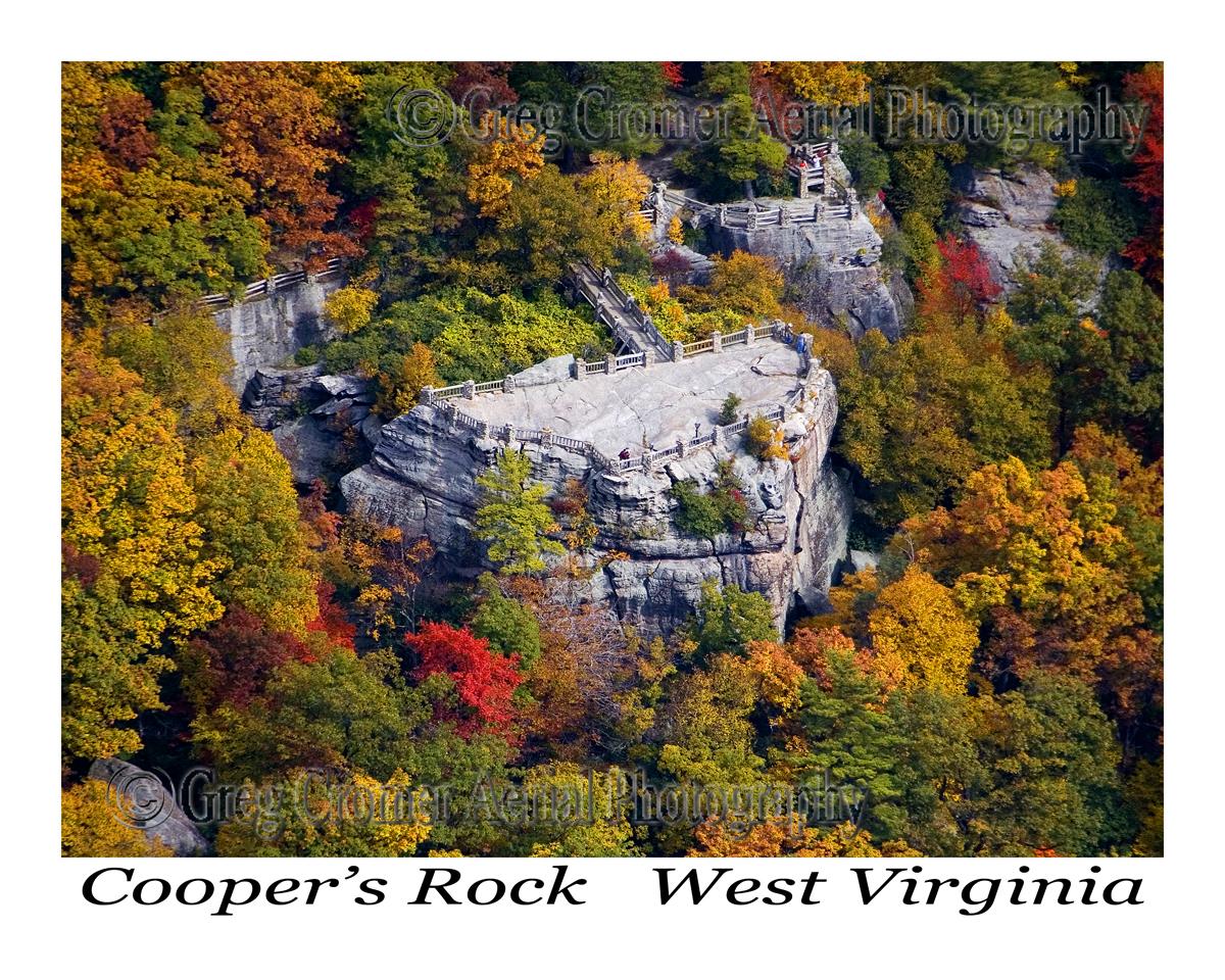 Aerial Photo of Cooper's Rock by Greg Cromer/America from the Sky.